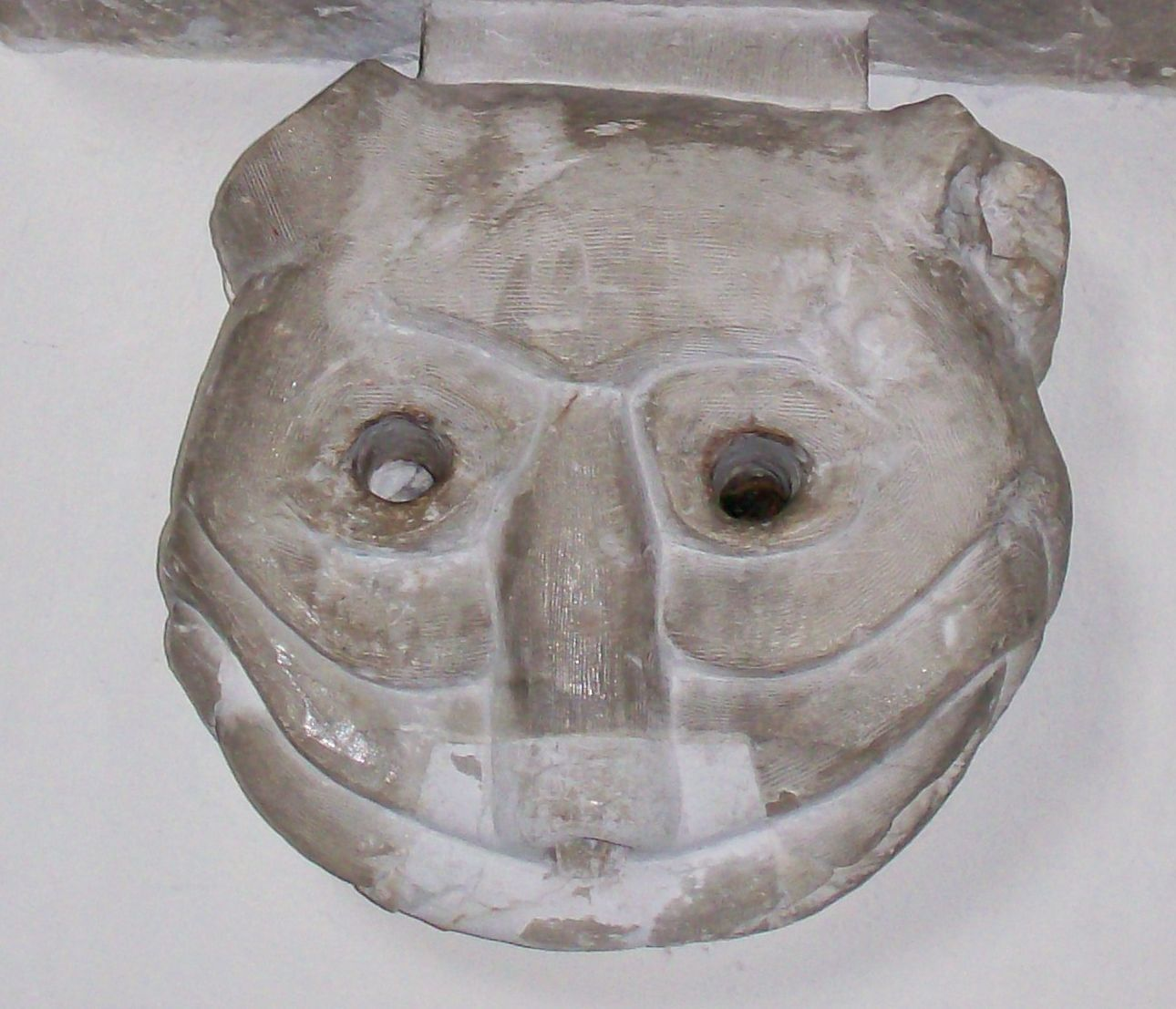 Cat's head in Cranleigh Church, believed to be the inspiration for Lewis Carrol's Cheshire Cat